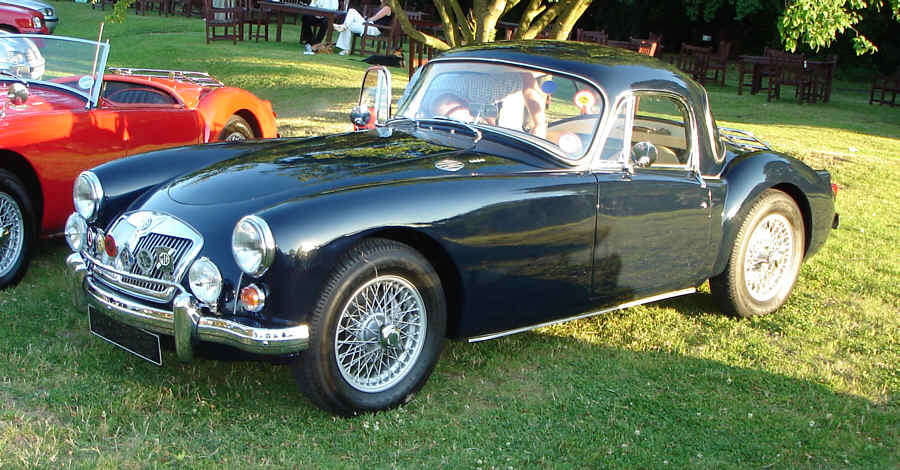 MGA 1600 coupe. Photographed by myself 18 July 2006